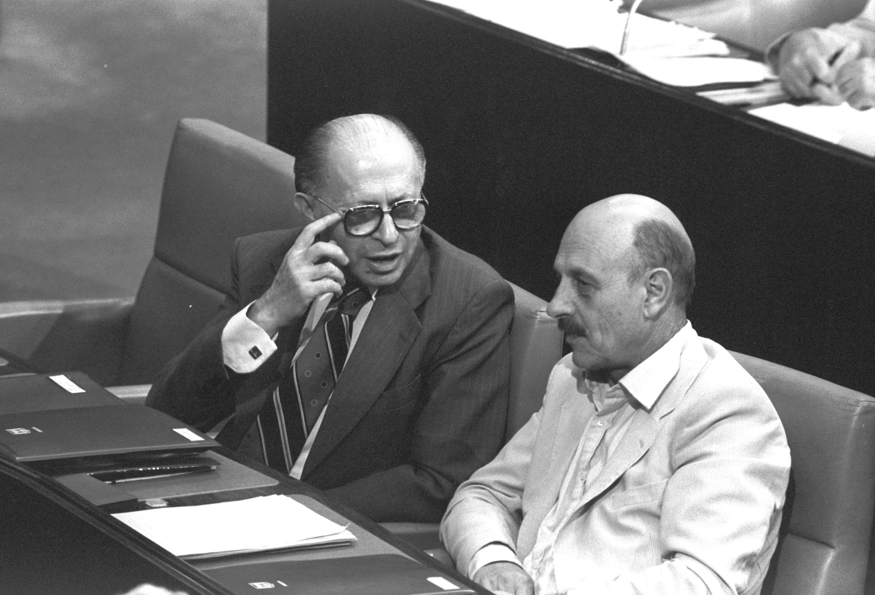 Prime Minister Menahem Begin (left) and Deputy Prime Minister Yigael Yadin speak during Knesset debate on the "Jerusalem Bill," which affirmed Jerusalem as Israel's capital and declares that its post-Six Day War borders shall not be impaired.